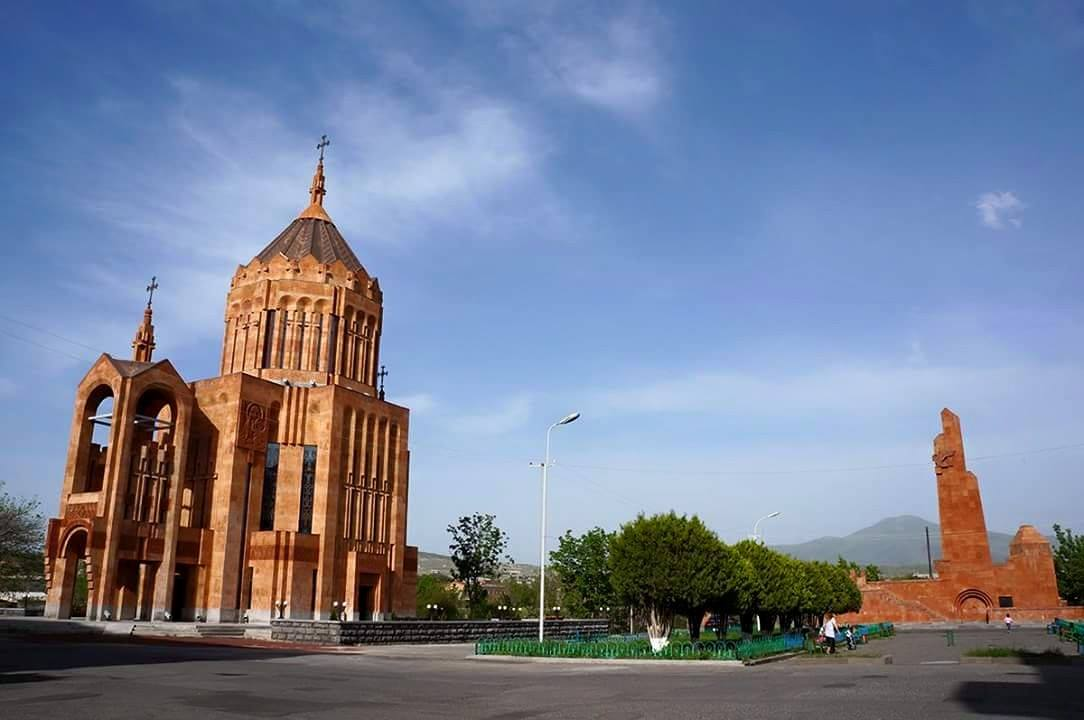 Nor Hachen, Armenia, Church of the Holy Saviour.